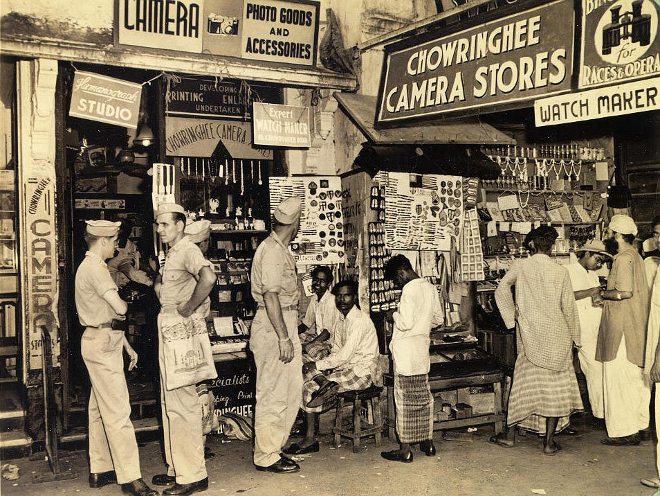 Original description: "Signs notwithstanding, you can't buy cameras, binoculars, photo goods or accessories here, but the stock does include anything from a Legion of Merit ribbon to an ivory necklace, brass ashtray, ladies evening bag, shoestrings or napkin rings. Typical shoppers ponder the situation." The South Asia Section of the Van Pelt Library, University of Pennsylvania recently acquired from a bookdealer a photograph album consisting of 60 photographs of Calcutta taken most likely between 1945-1946. The photographer, Mr. Clyde Waddell, also provided the interesting glosses accompanying each photograph. Several attested copies of this work has emerged including one with a 'title page' held by the Southeastern Louisiana University in Hammond, Louisiana. Mr. Waddell was a military photographer. Many of his captions sound like annotations that would be found in a typical military magazine. The album begins with several general long shots of Calcutta and ends with a picture of dhobi-s (washermen) washing clothes. The text accompanying the last photograph also sounds as if the author intended to finish with that picture of one of the "great mysteries of India." The annotations have been included because of their intrinsic interest not only to the photographs but to a 'typical' American impression of India at this time.